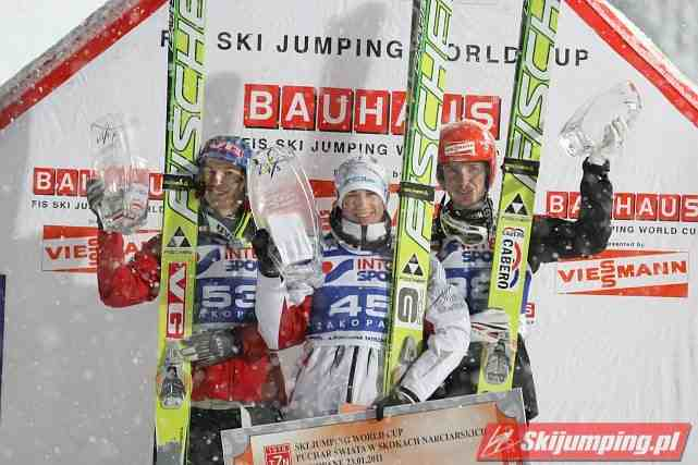 Podium of sunday competition of FIS Ski Jumping World Cup in Zakopane, 2011. From left: Tom Hilde, Kamil Stoch, Michael Uhrmann